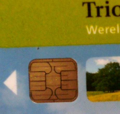 Chip on a Dutch bankcard (new version)